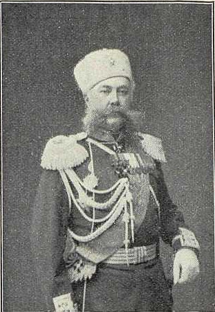 Lieutenant-General Nikolai Pritvits.